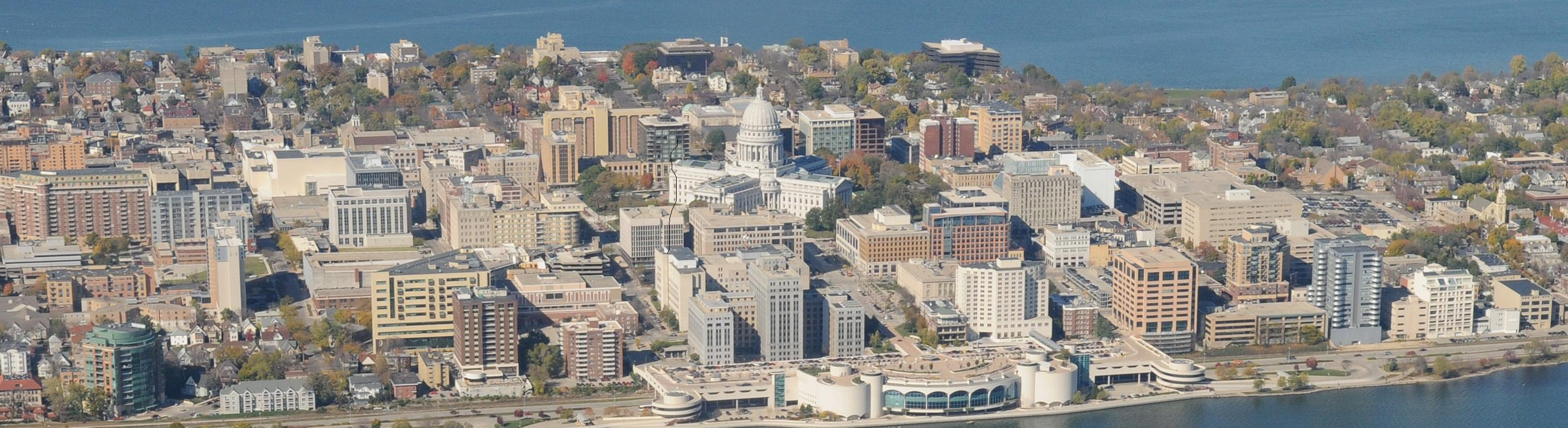 Downtown Madison, Wisconsin, United States, from the air.